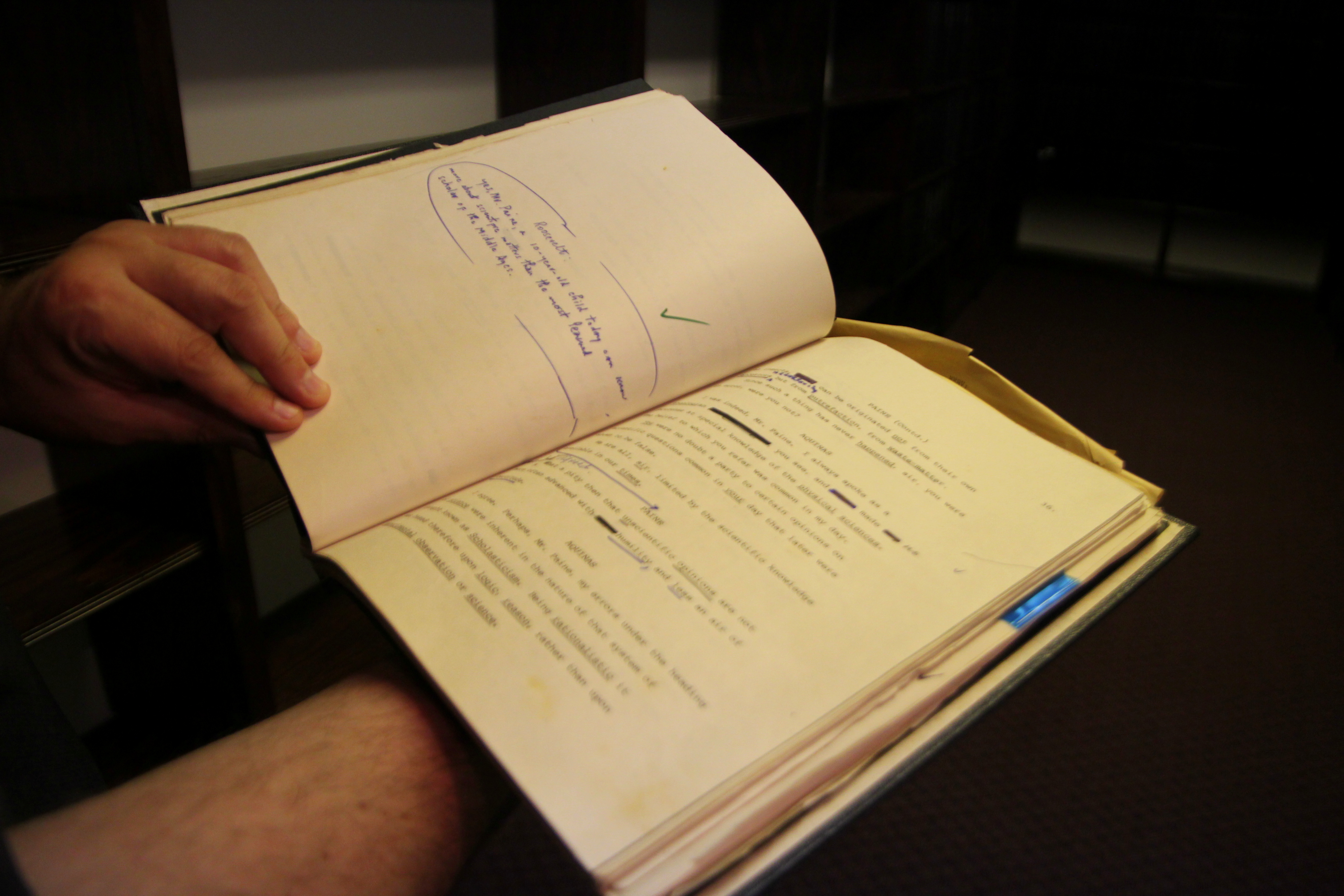 Meeting of the Minds Script cover from Center of Inquiry collection, Amherst, NY